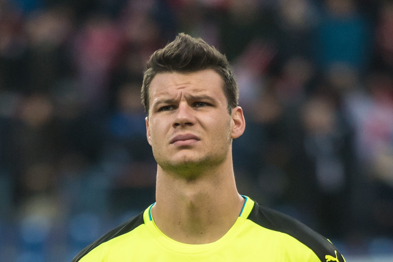 European Under-21 Championship 2017 Qualifying Round, Austria vs Germany, 11/10/2016, St. Polten